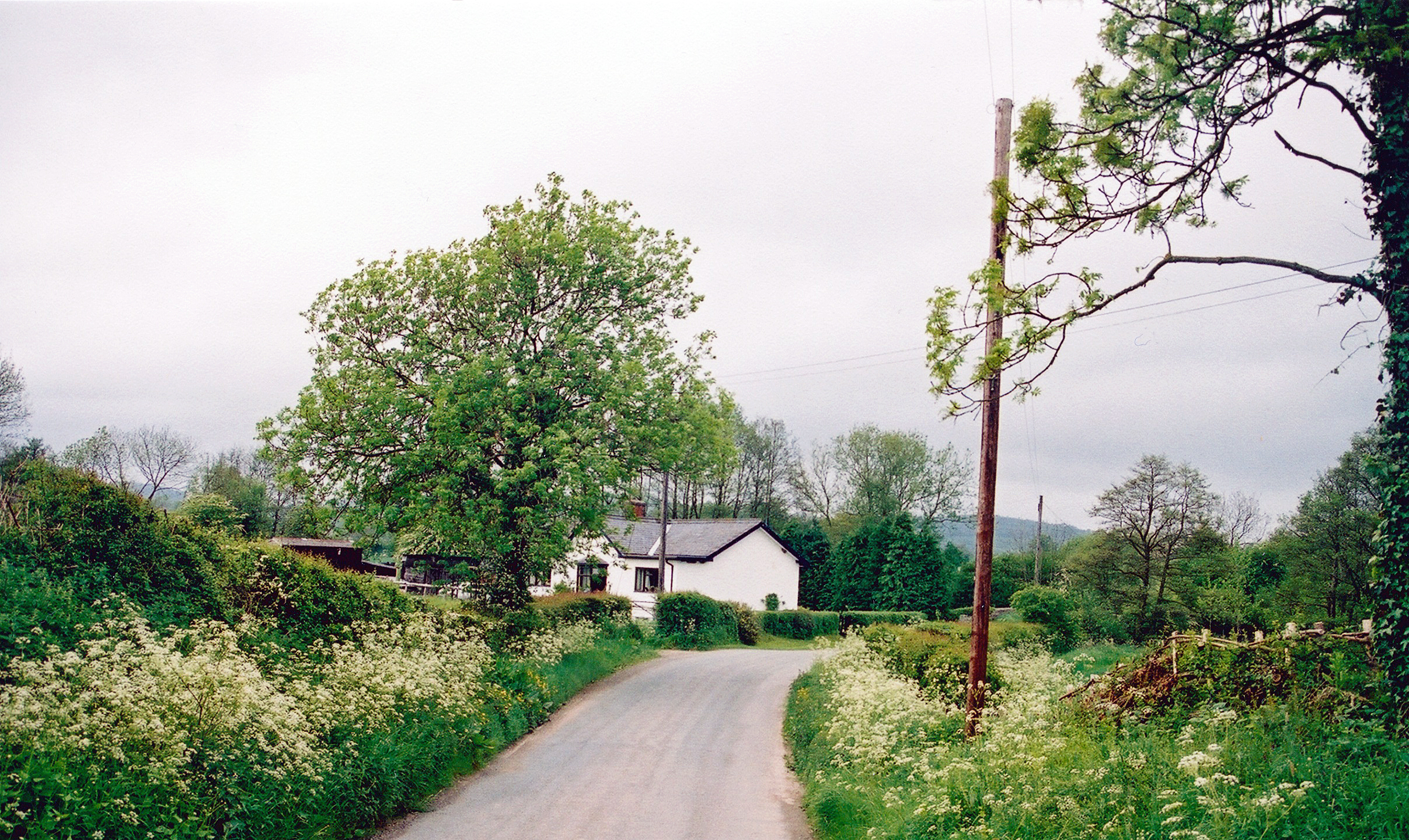 Site of former Eaton station. View northward on road to Wentnor: the impecunious Bishops Castle Light Railway, closed since 20/4/35, ran from Craven Arms (to right) to Bishop's Castle, along her beside the River Onny